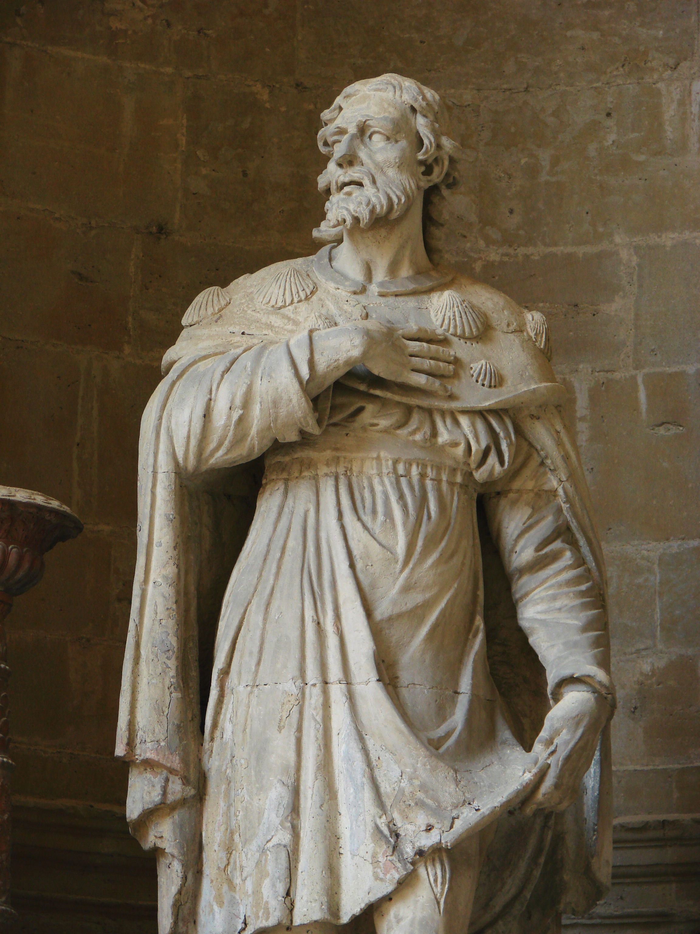 Statue of Saint Roch, Auch Cathedral, France.